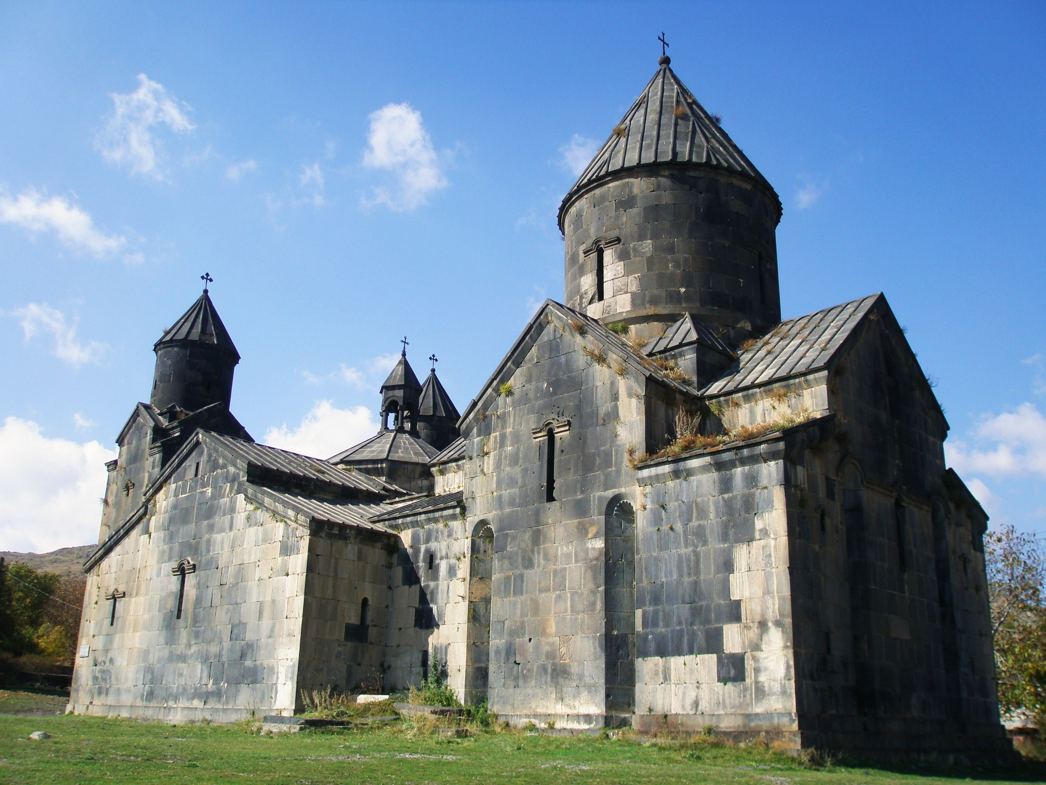 Tegher southeast facade